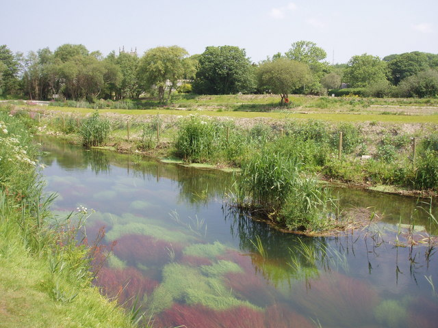 Hayle River near St Erth. St Erth church can be seen behind the trees. The Hayle river reaches the sea in SW5439, about 3 miles north of here.